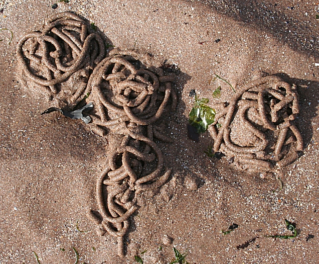 Lugworm Casts. The sand at this end of the beach is always dotted with lug casts. The worms can grow to 25 cm (almost a foot) long, and live in deep U-shaped burrows in wet sand near the low tide mark. They ingest sand at one end, extract from it anything they can digest, and pass the inedible material out at the other end in these worm-like casts. Lugworms are excellent bait for catching flatfish, and you often see fishermen here, digging up the lug to bait their hooks.